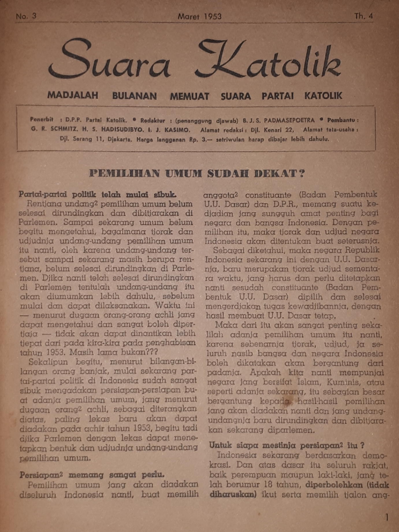 An example of the Suara Katolik.